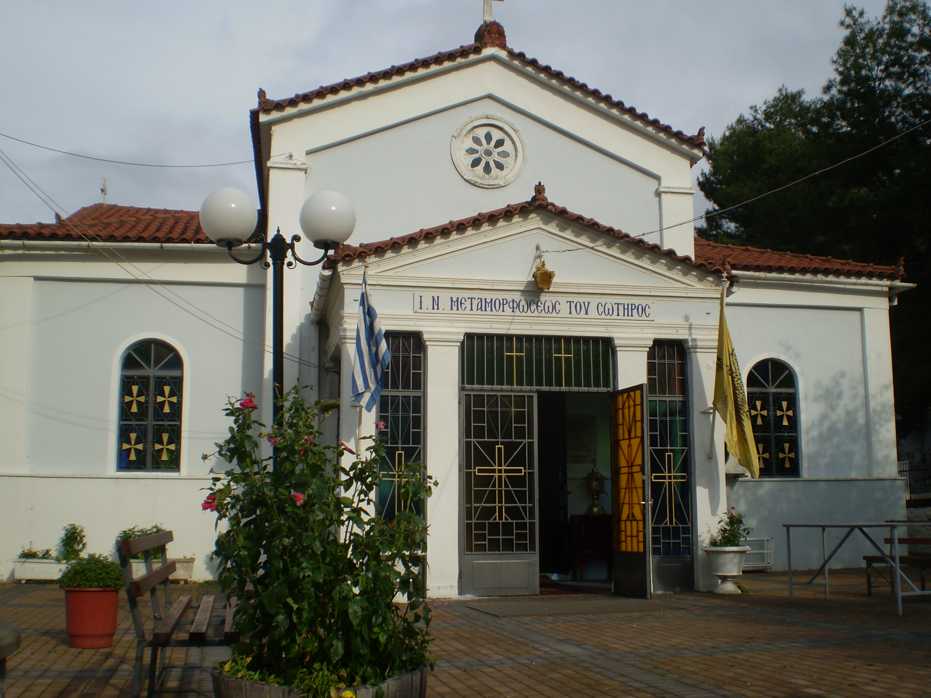 Church in Atalanti Fthiotis, Central Greece